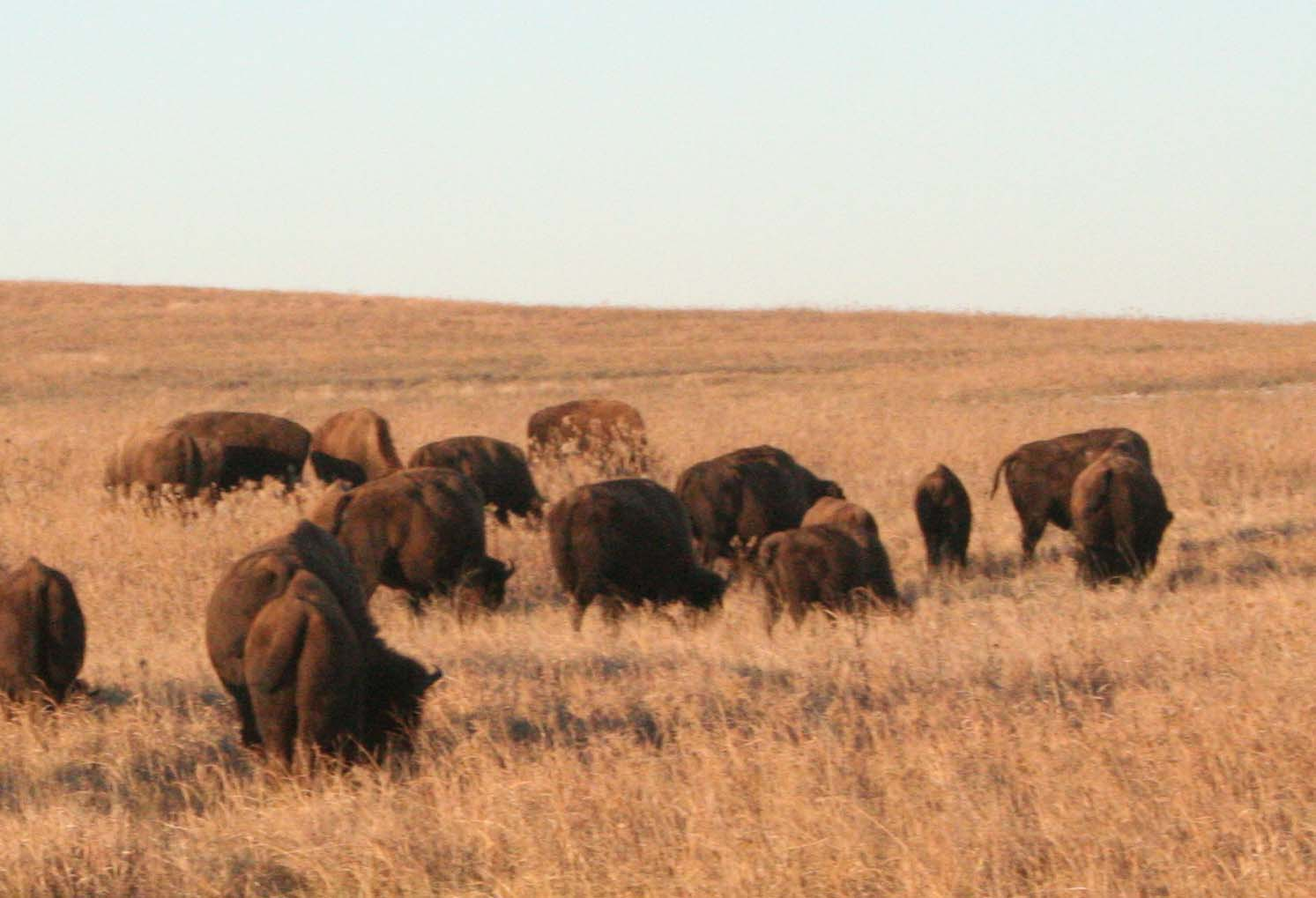 Bison at the Tallgrass Prairie Nature Preserve. A tallgrass prairie in Osage County, Oklahoma. A Nature Conservancy preserve.